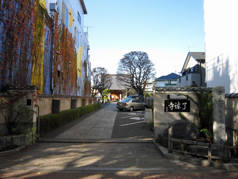 Ryohoji Temple, Hachioji, Tokyo, Japan